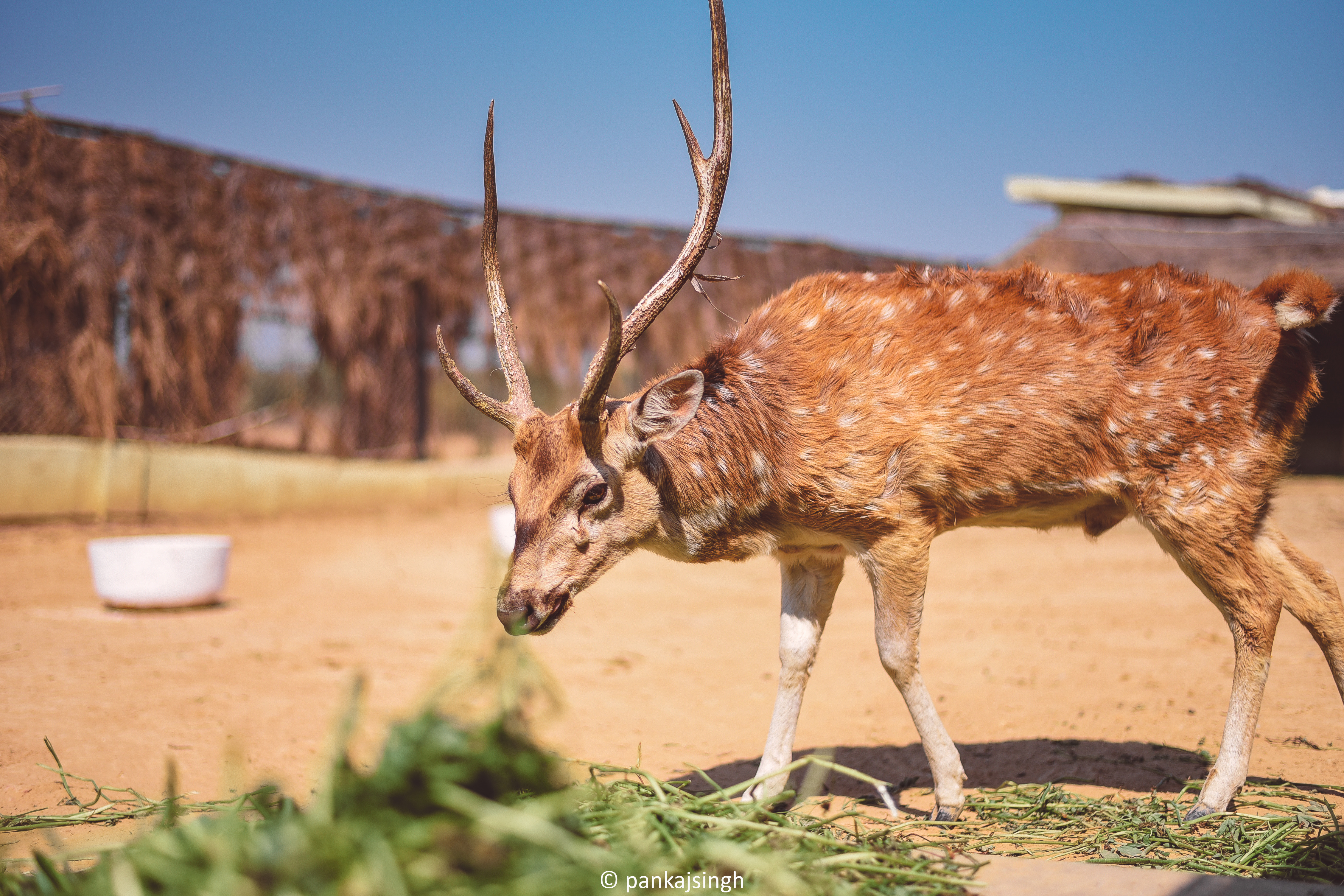 This is a picture of deer captured in the month of March at Etawah wildlife safari park